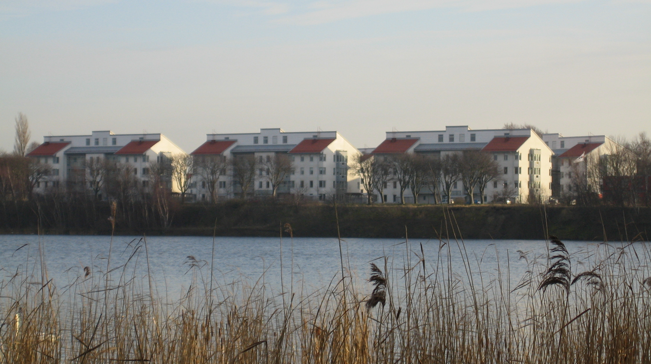 The former lime quarry in Klagshamn, Malmö, Sweden.